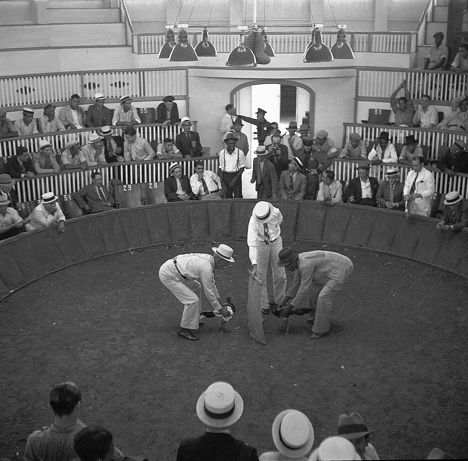 The beginning of the cock fight. When the man in the center raises the cloth, the birds will see each other and begin to fight. Puerto Rico